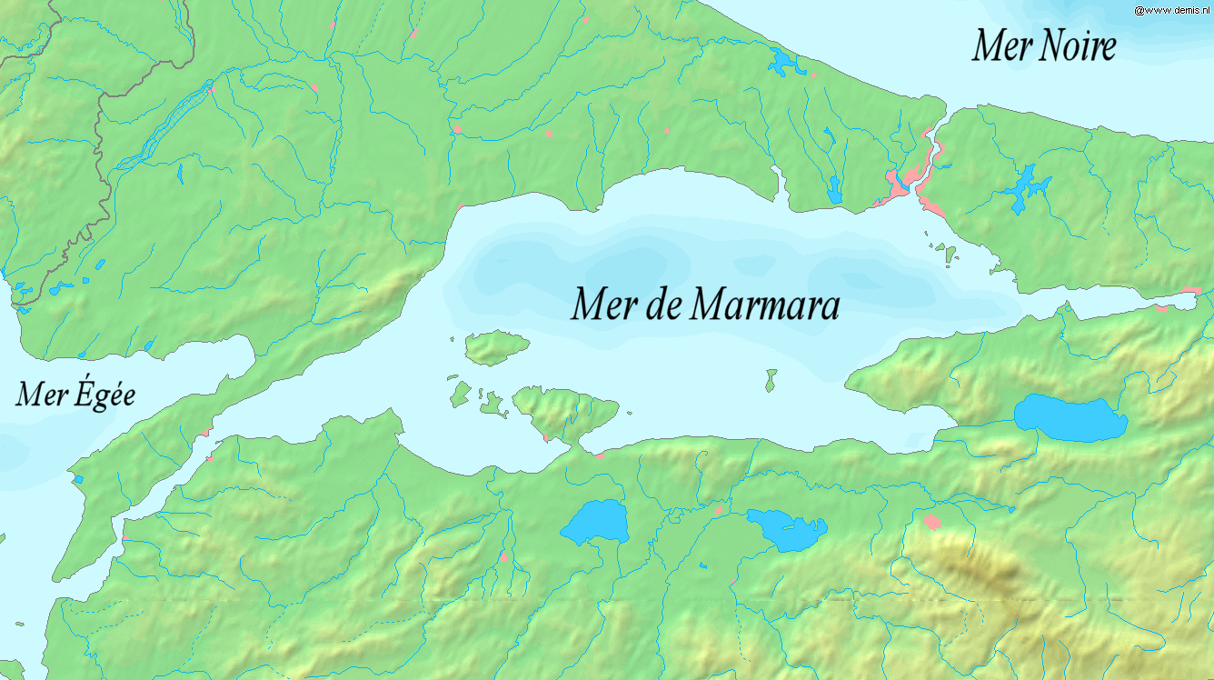 Sea of Marmara (with sea names added to the orignal image)